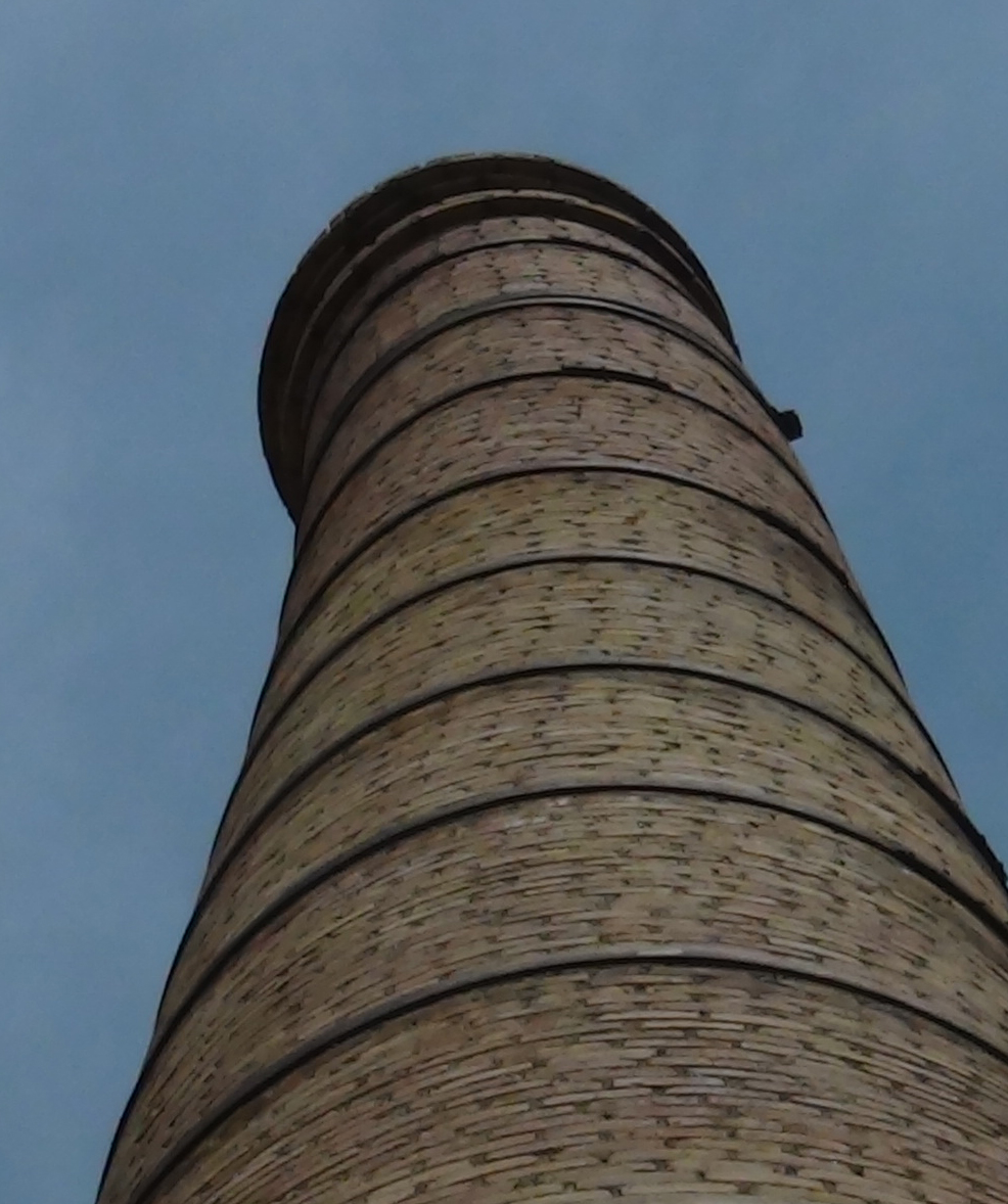 Pathologies of industrial chimneys